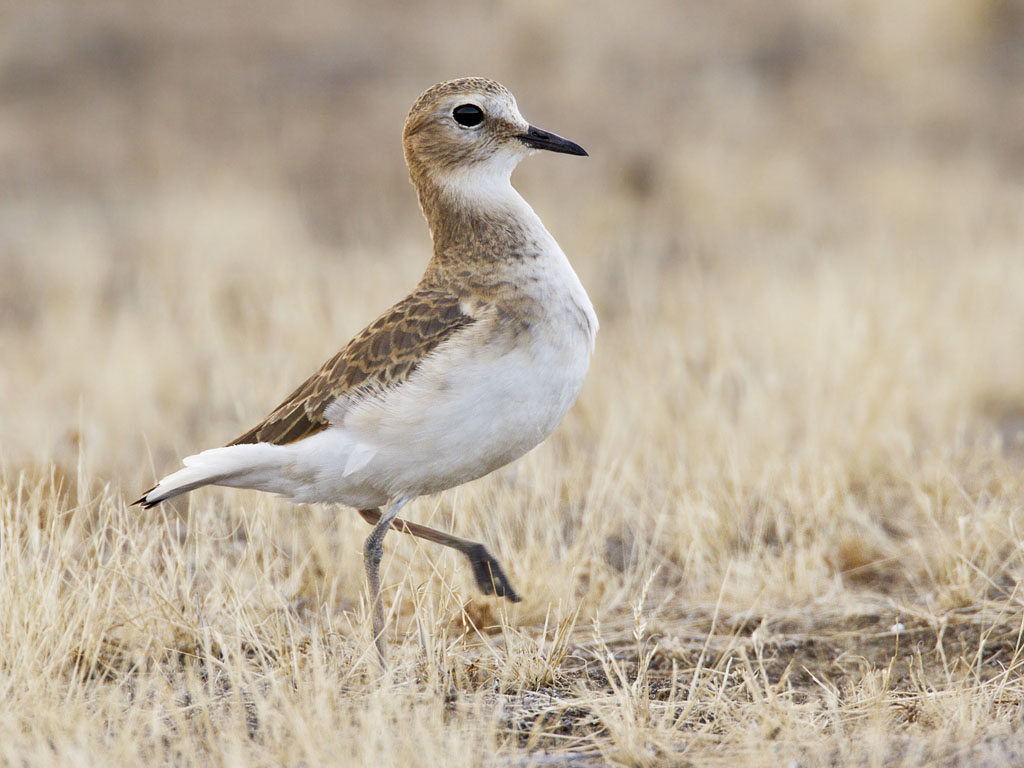 Threatened species status proposed. Carrizo Plain National Monument, San Luis Obispo Co., CA, USA